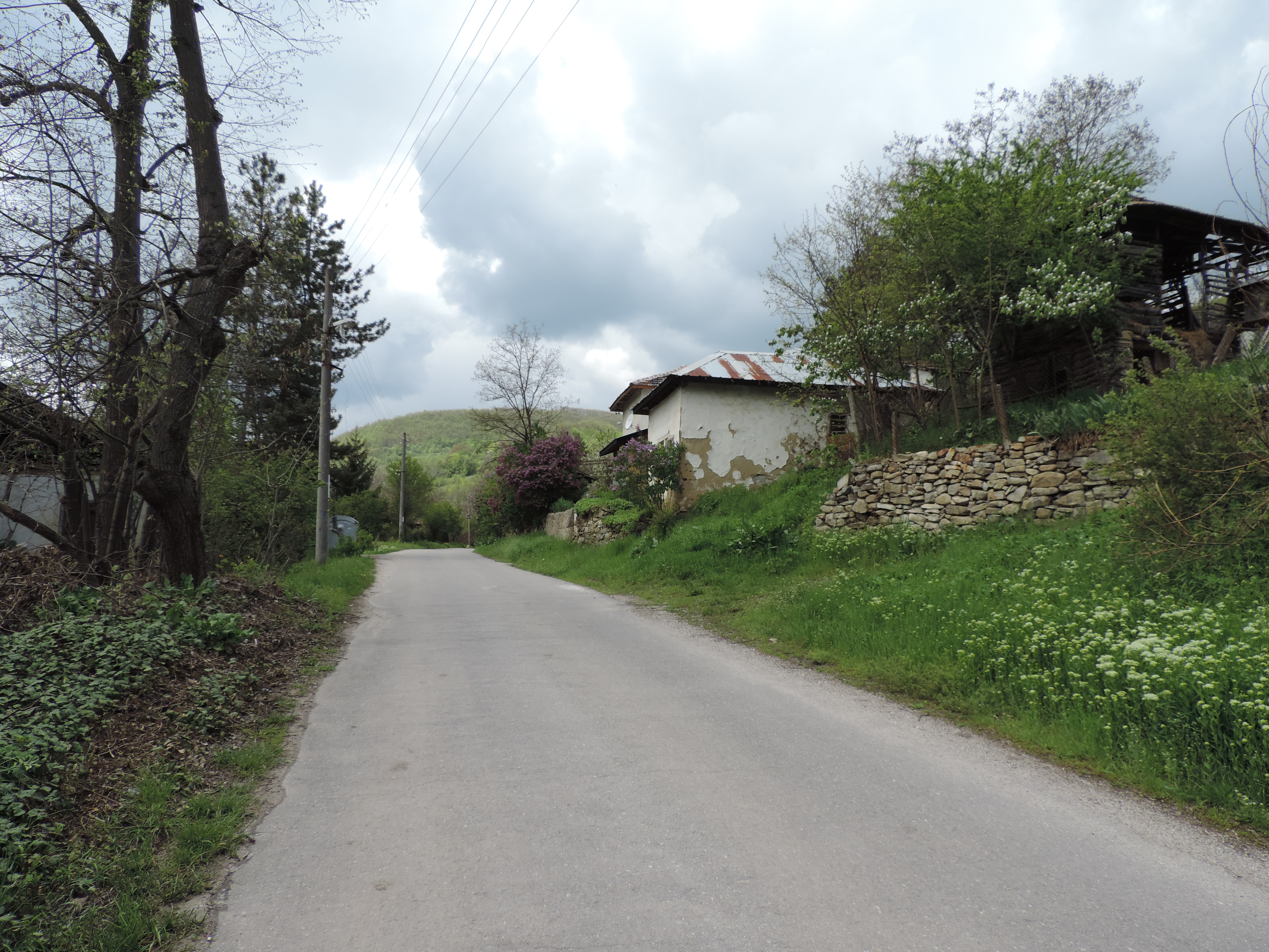 Krusha, Sofia District, Bulgaria